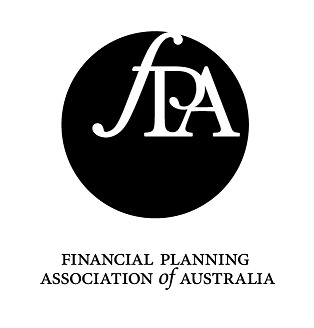 it is the brand logo of the FPA Australia